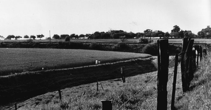 Schöller Siepen with embankment of a railway and a bridge before land clearance project 1972